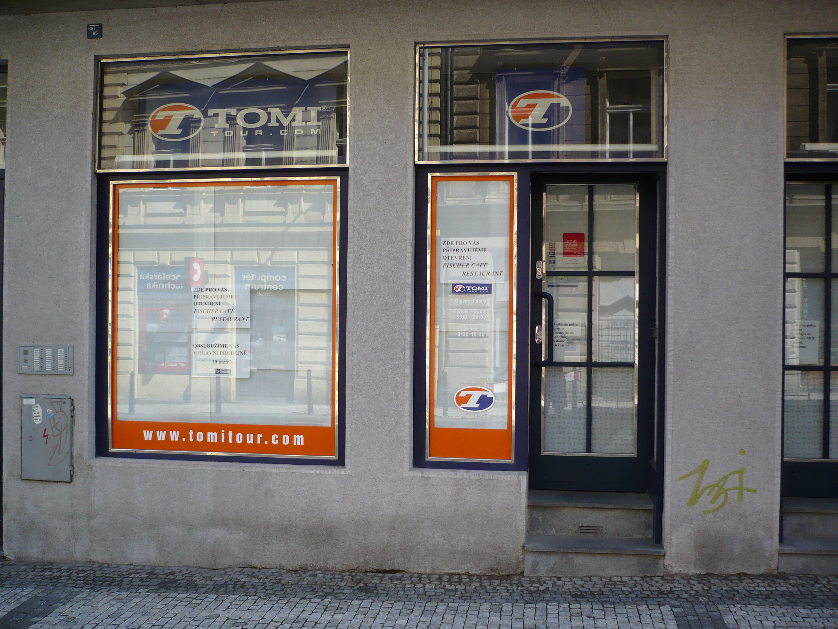 Tomi Tour, the sign announces a Fischer Café Restaurant should be opened soon